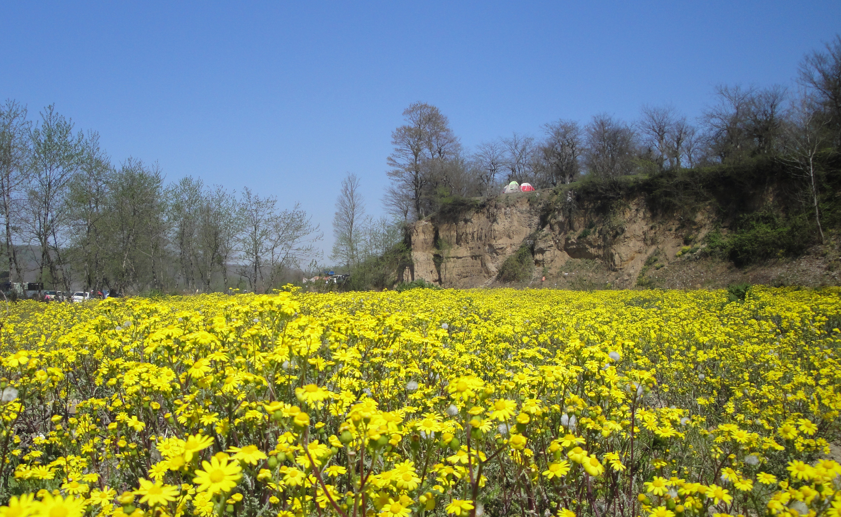 Yellow Flowers on The Baliran Jungle